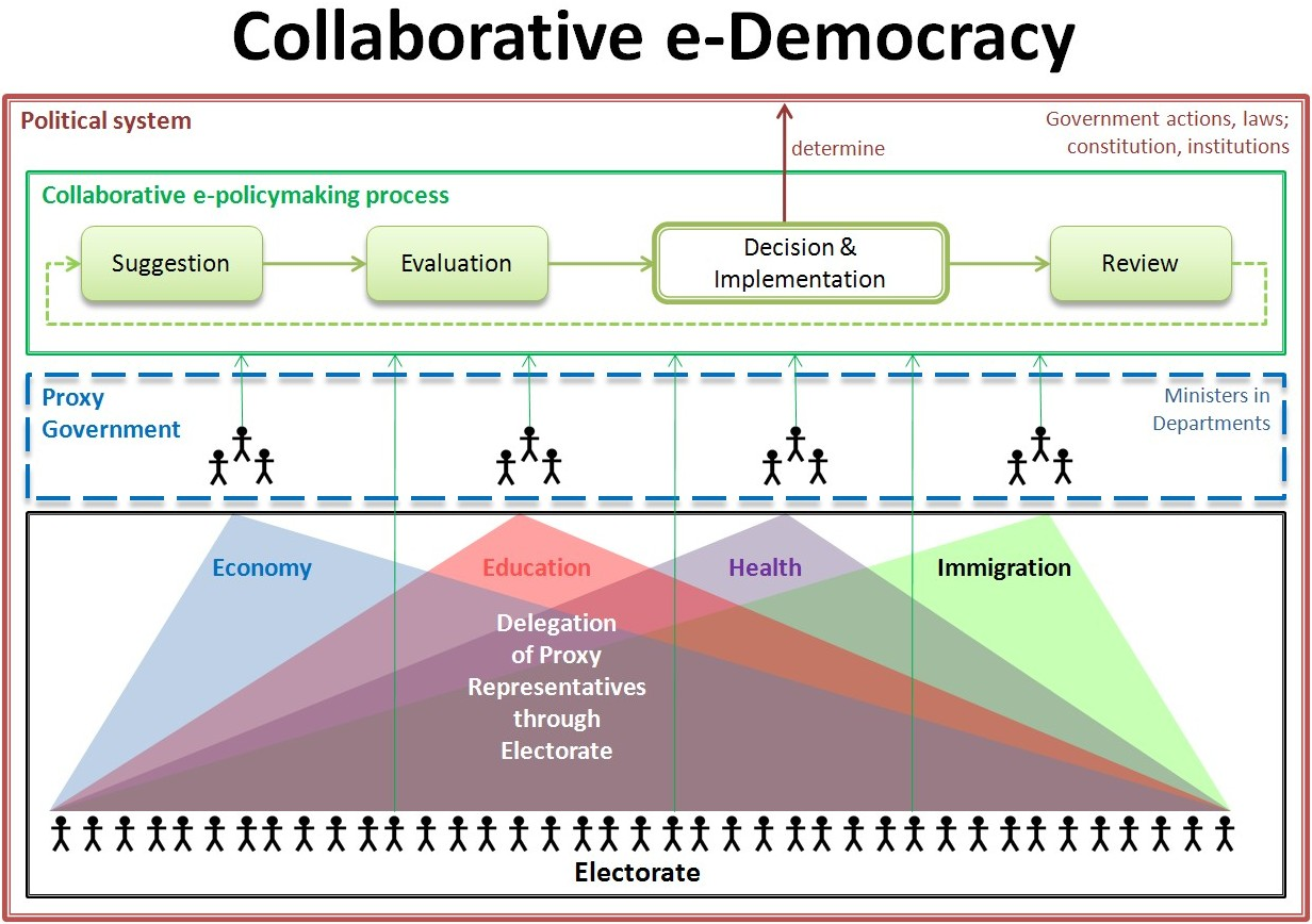 In a collaborative e-democracy every citizen participates in the collaborative policy process, either indirectly - by delegating proxy representatives to vote on their behalf within the different policy domains, or directly - by voting on a particular issue (green arrows).